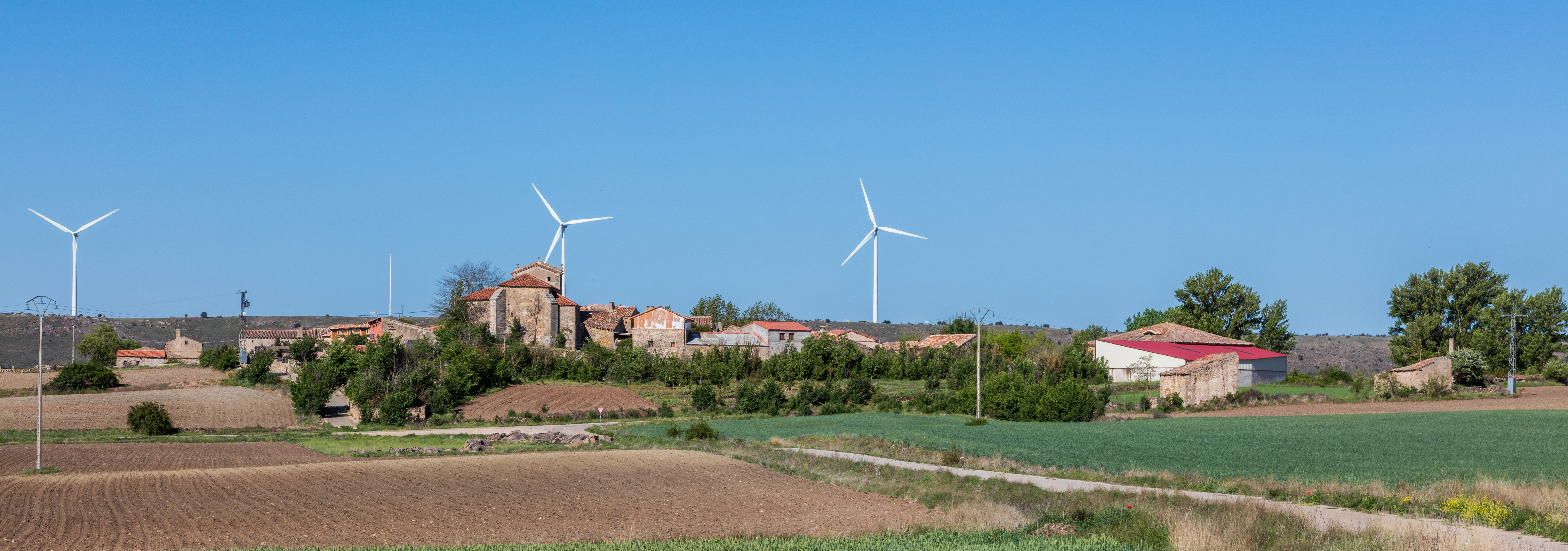 Conquezuela, Soria, Spain